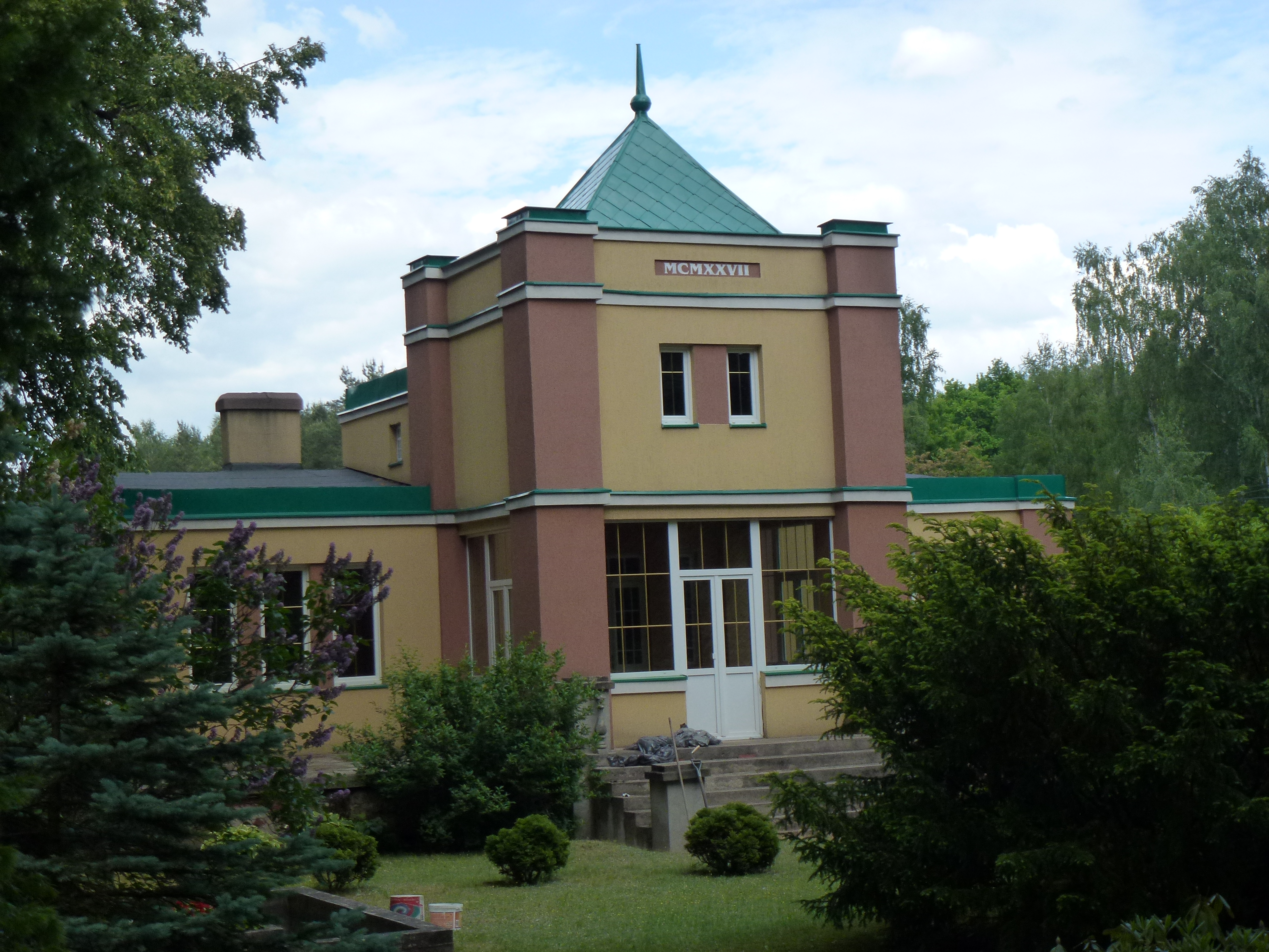 Villa dating from 1927, belonging to starosta Aleksy Rżewski, in Zofiówka, Łódź Voivodeship, Poland